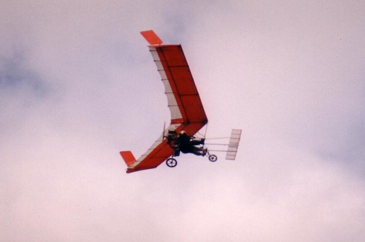 PterodactyAscenderII is Ultralight aircraft sold in U.S. between 1979 and 1984. This photo has been released into the public domain by the author, User:Ahunt.